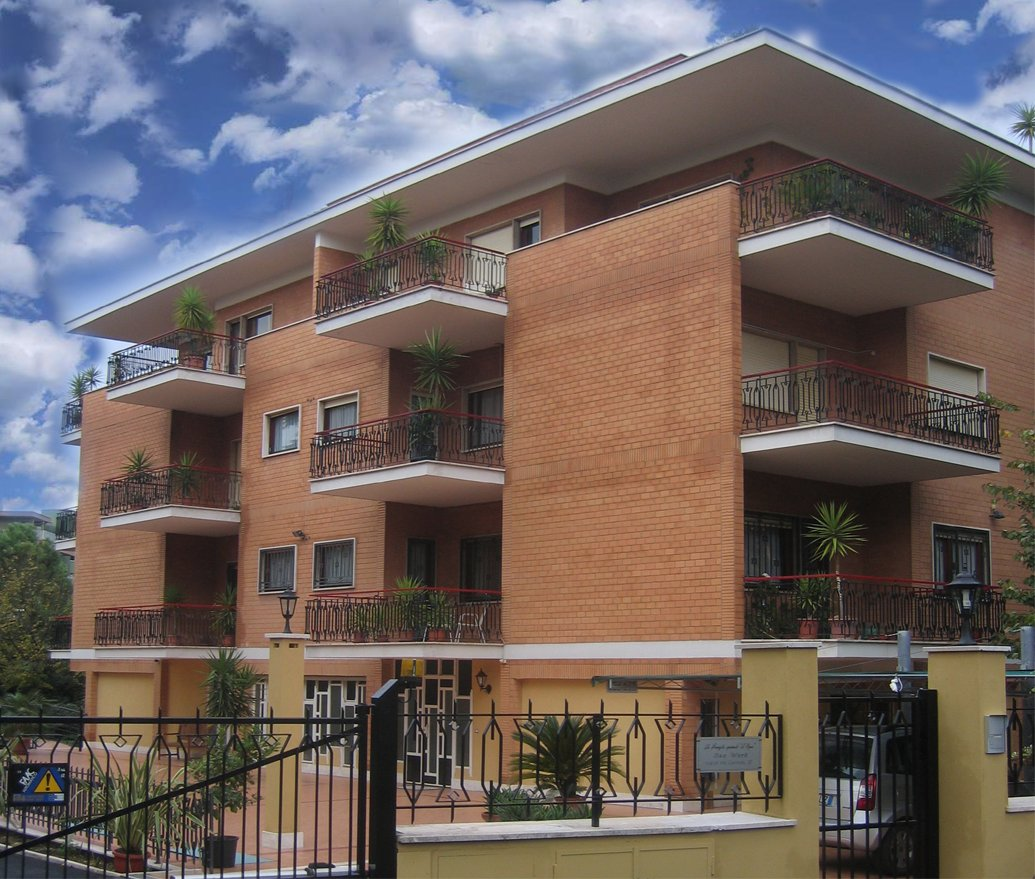 Collegium Paulinum, Rome